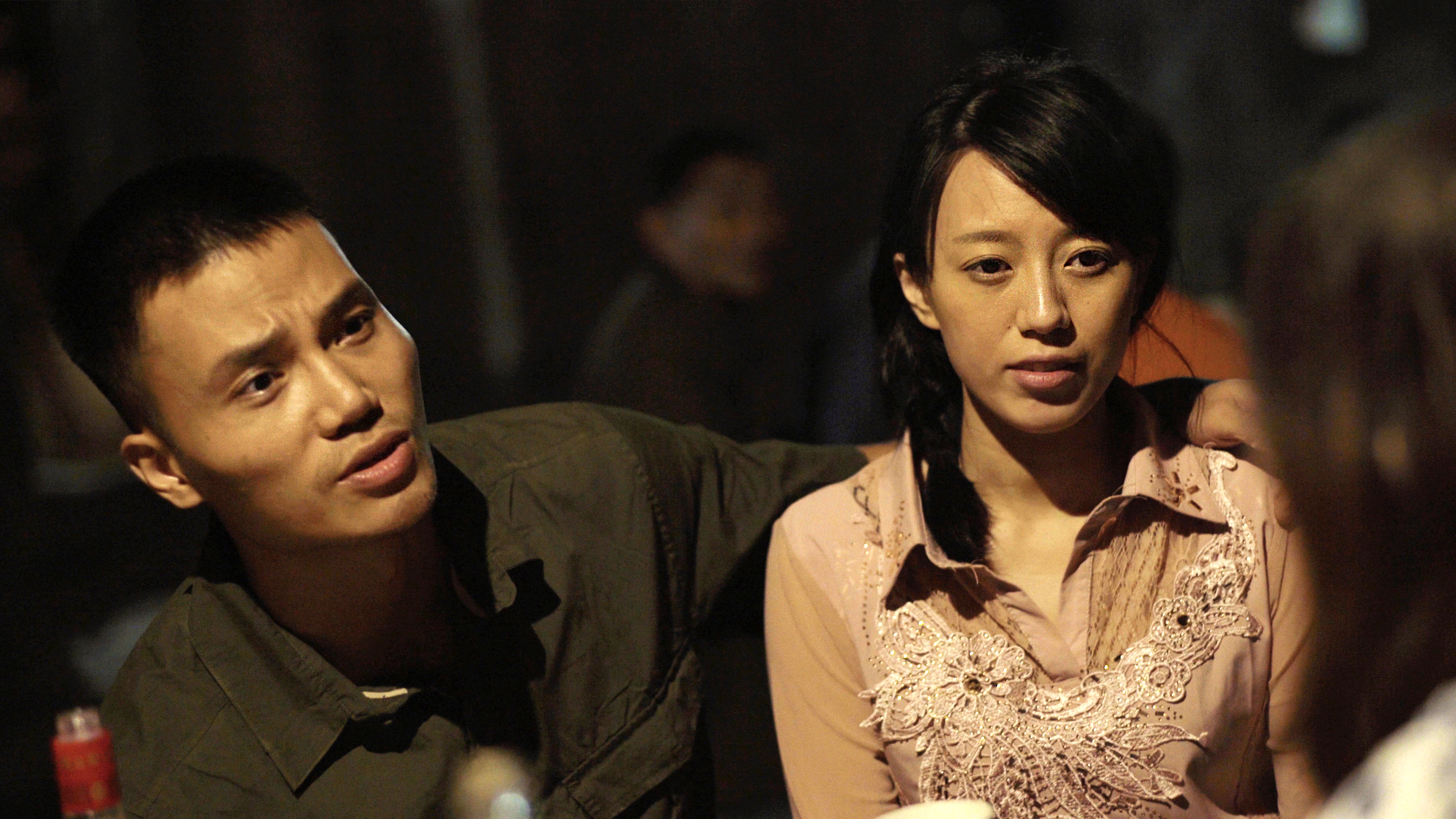 Picture of the short film Sunken Plum (Chen Li, Ciruela de agua dulce), a short film directed by Roberto F. Canuto and Xu Xiaoxi, with actors Tian Peng and Chen Jiaqi. Created by Almostred. Check page description of Almostred with OTRS permission tag and a verified account. All documents related to the images already submitted and approved. Check